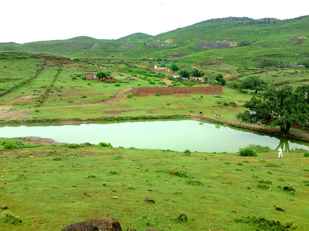 AQ village in Salt Range